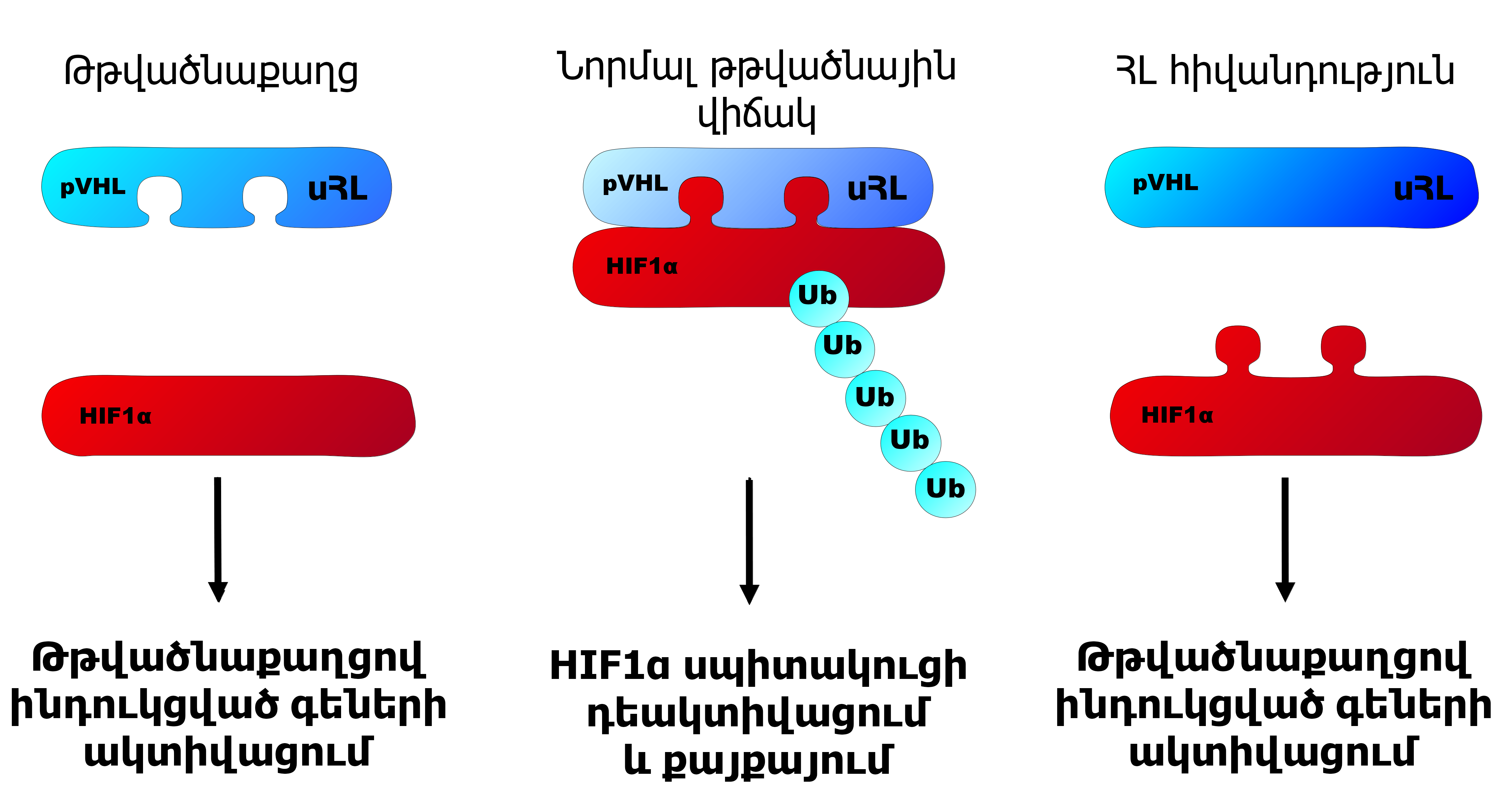 The regulation of HIF1α by pVHL. Under normal oxygen levels, HIF1α binds pVHL through 2 hydroxylated proline residues and is polyubiquitinated. This leads to its degredation via the proteasome. During hypoxia, the proline residues are not hydroxylated and pVHL cannot bind. HIF1α causes the transcription of genes that contain the hypoxia response element. In VHL disease, genetic mutations cause alterations to the pVHL protein, usually to the HIF1α binding site.